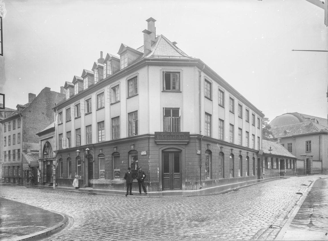 Kalkeballen's former building at the corner of Store Kannikestræde and Lille Kannikestræde in Copenhagen, Denmark